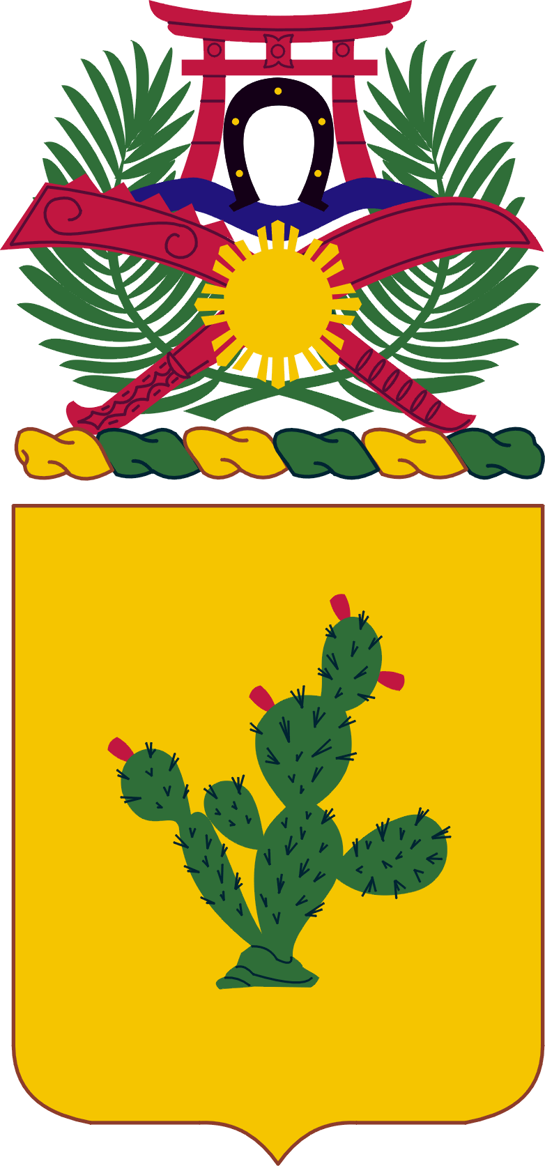 Wikipedia:12th Cavalry Regiment (United States)/12th Cavalry Regiment Coat of Arms